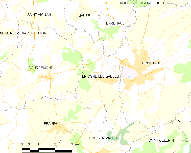 Map of French municipality